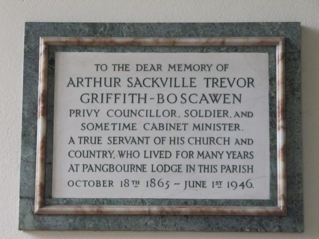 Memorial on the wall A memorial to Arthur Griffith-Boscawen on the wall of St James Church Pangbourne I could not say if he is buried in the churchyard.